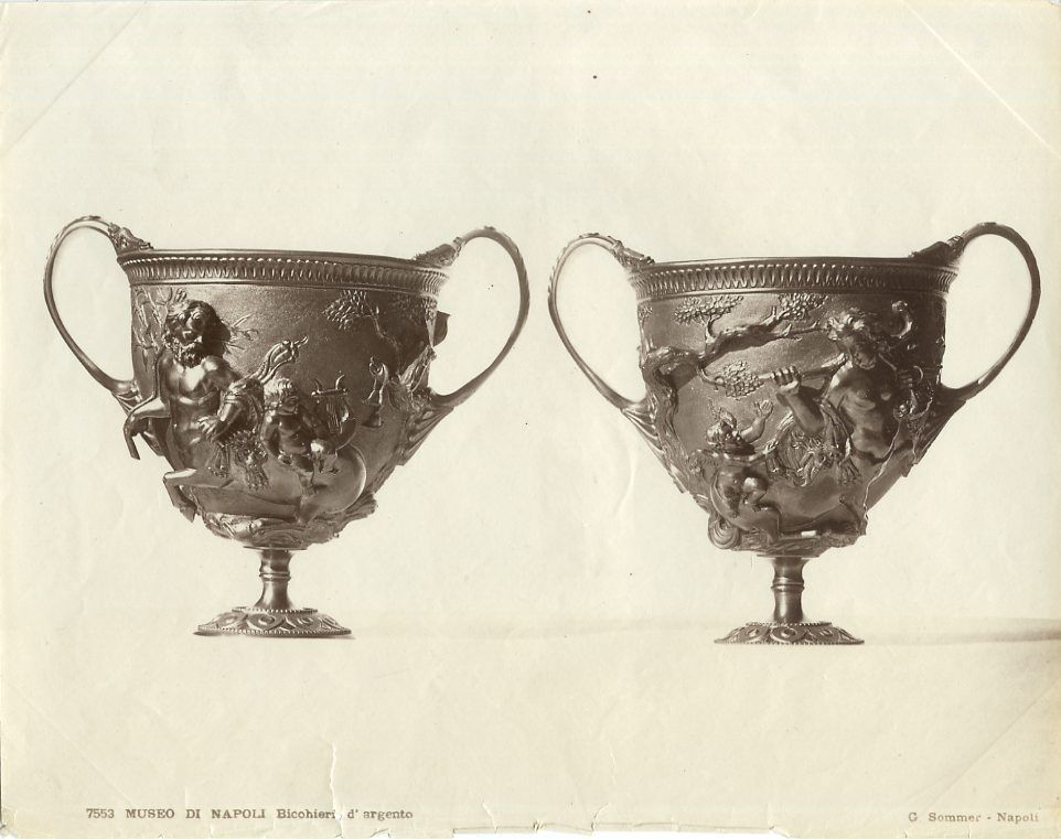 Giorgio Sommer (1834-1914) - "Museum in Naples. Silver cups" (found in Pompeii). Catalogue # 7553. Ca. 1870s.